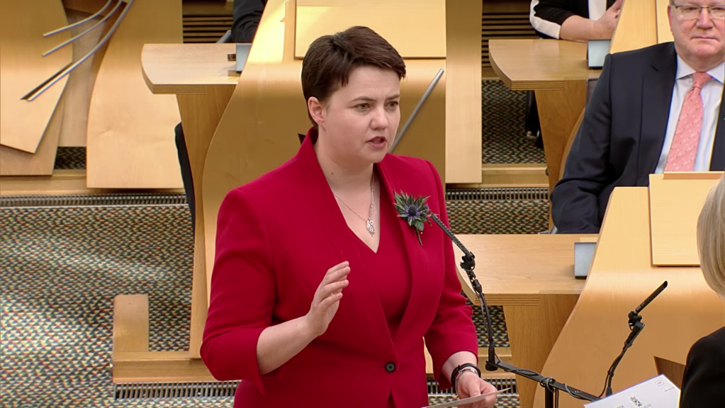 Ruth Elizabeth Davidson, Member of the Scottish Parliament for Edinburgh Central, takes the parliamentary oath following the 2016 election.